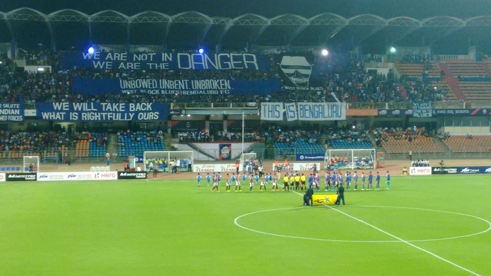 Bengaluru FC banner against Mohun Bagan 14 February 2016